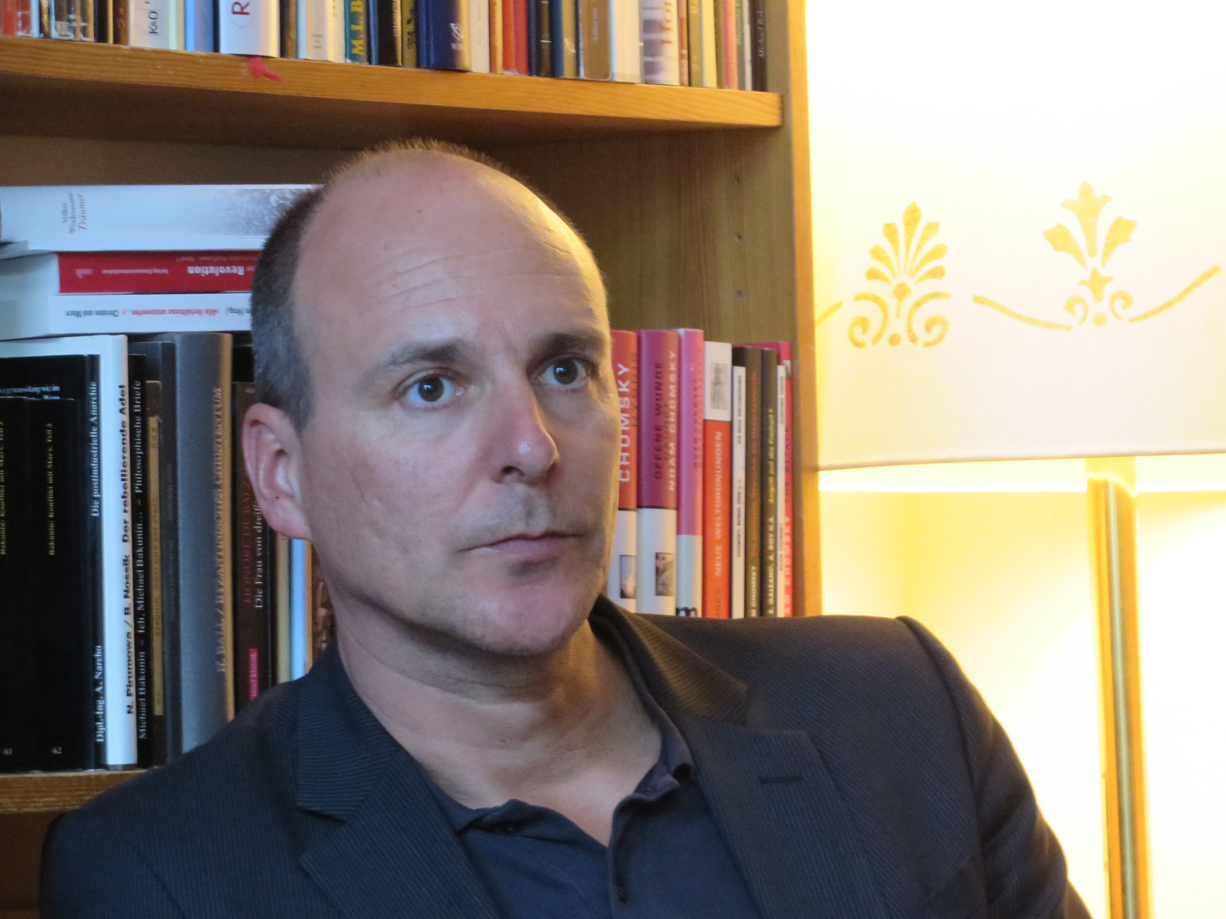 Stephan Grigat at event in social centre Trotz Allem in Witten, Germany